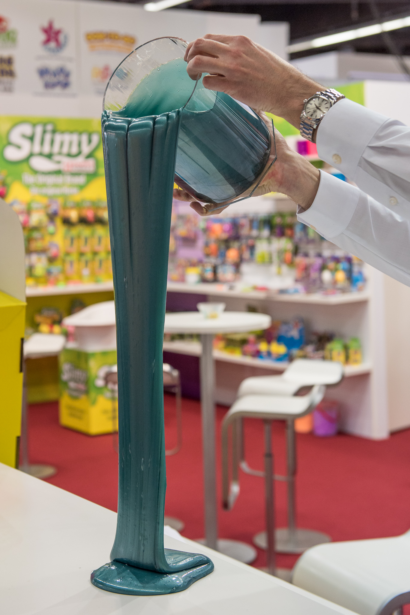 International Toy Fair Nürnberg,Joker Group,Slimy,Spielwarenmesse